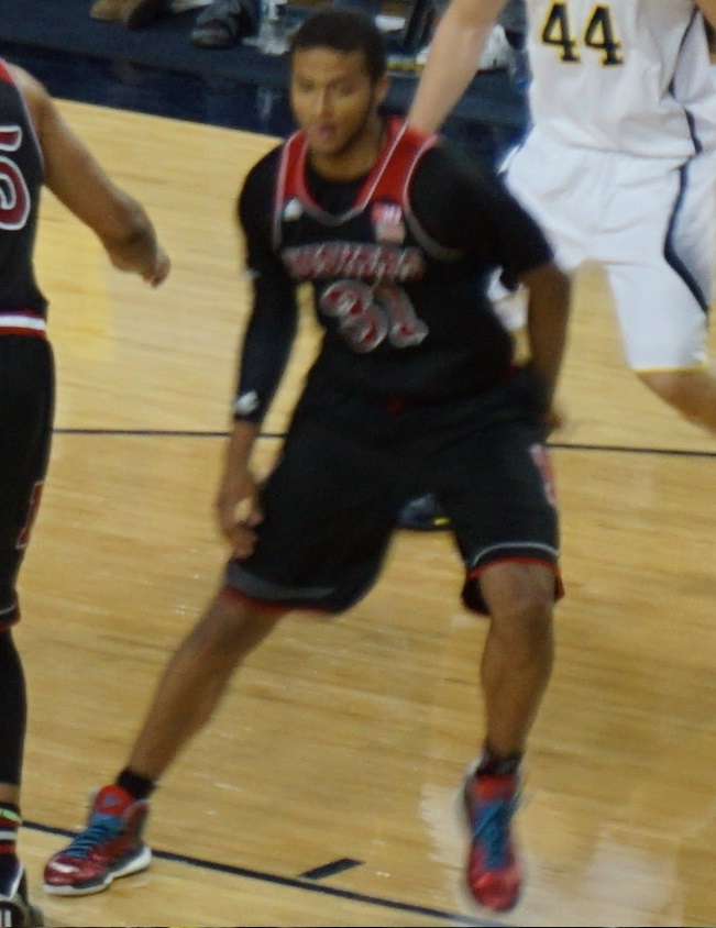 Shavon Shields playing for Nebraska.